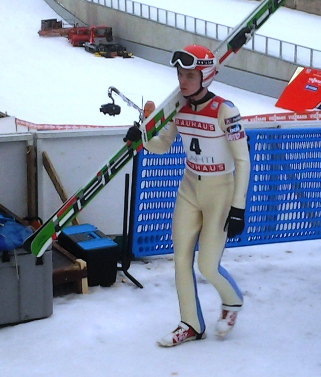 Finnish ski jumper Sami Niemi at Lahti Ski Games 2014.